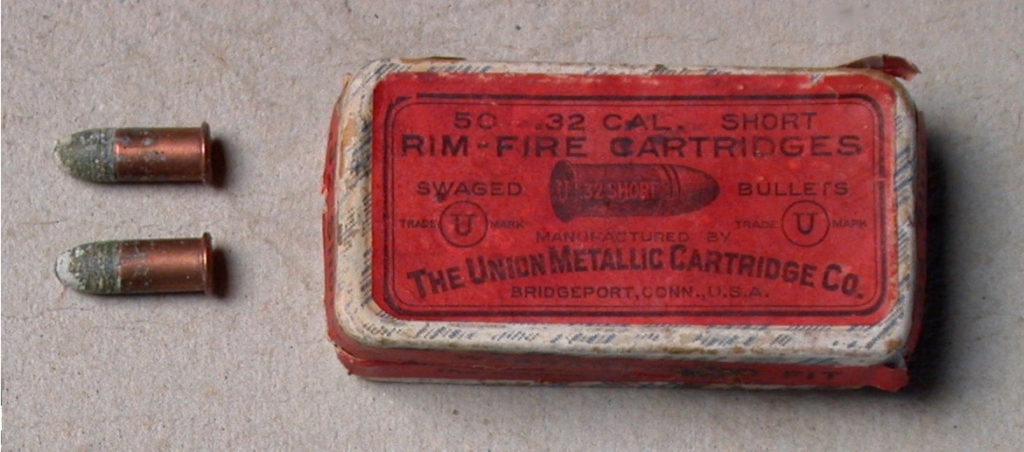 32 Rim-Fire UMC Gartridges